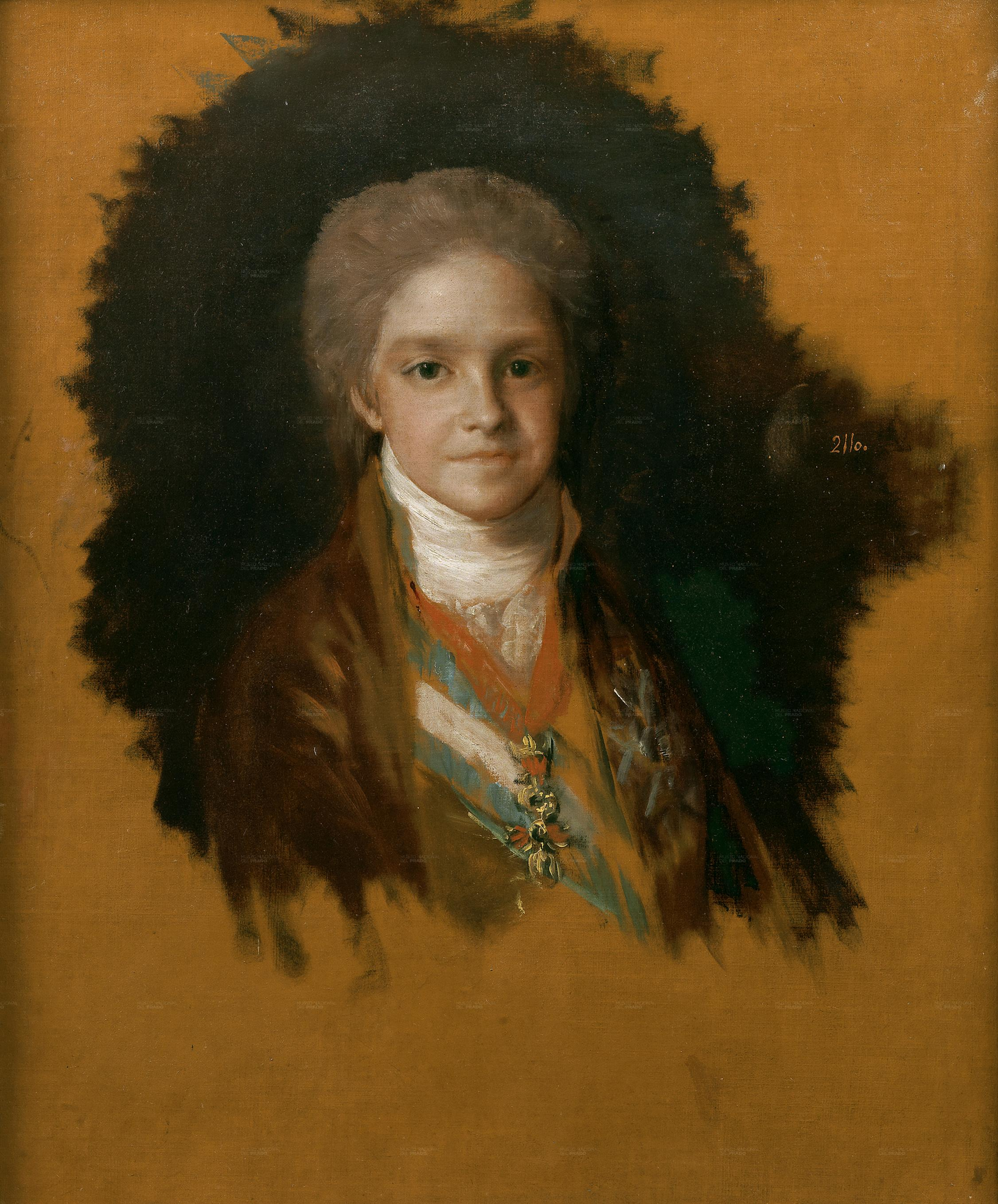 Portrait of the Infant Carlos María Isidro of Spain (1788-1855)